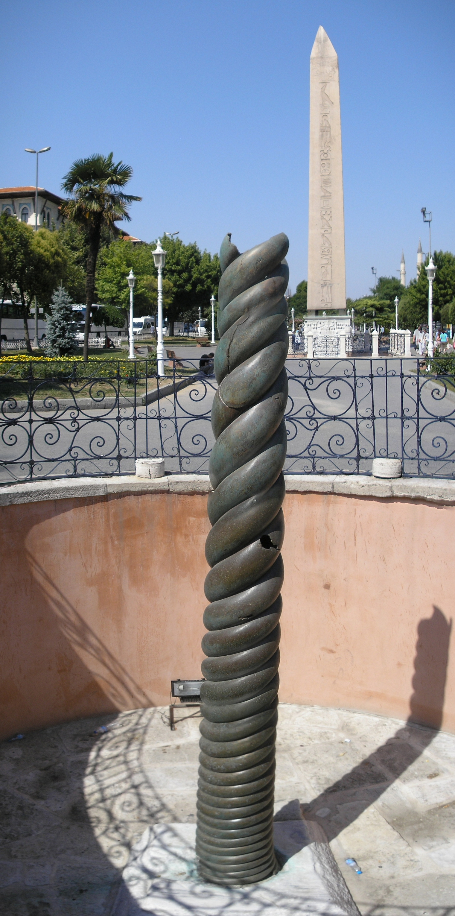 So-called "Snake column" or "Serpents column" that used to be in the centre of the Hippodrome in Constantinople. Originally it had three heads and came from Delphi, one of the heads is in the Istanbul museum today.